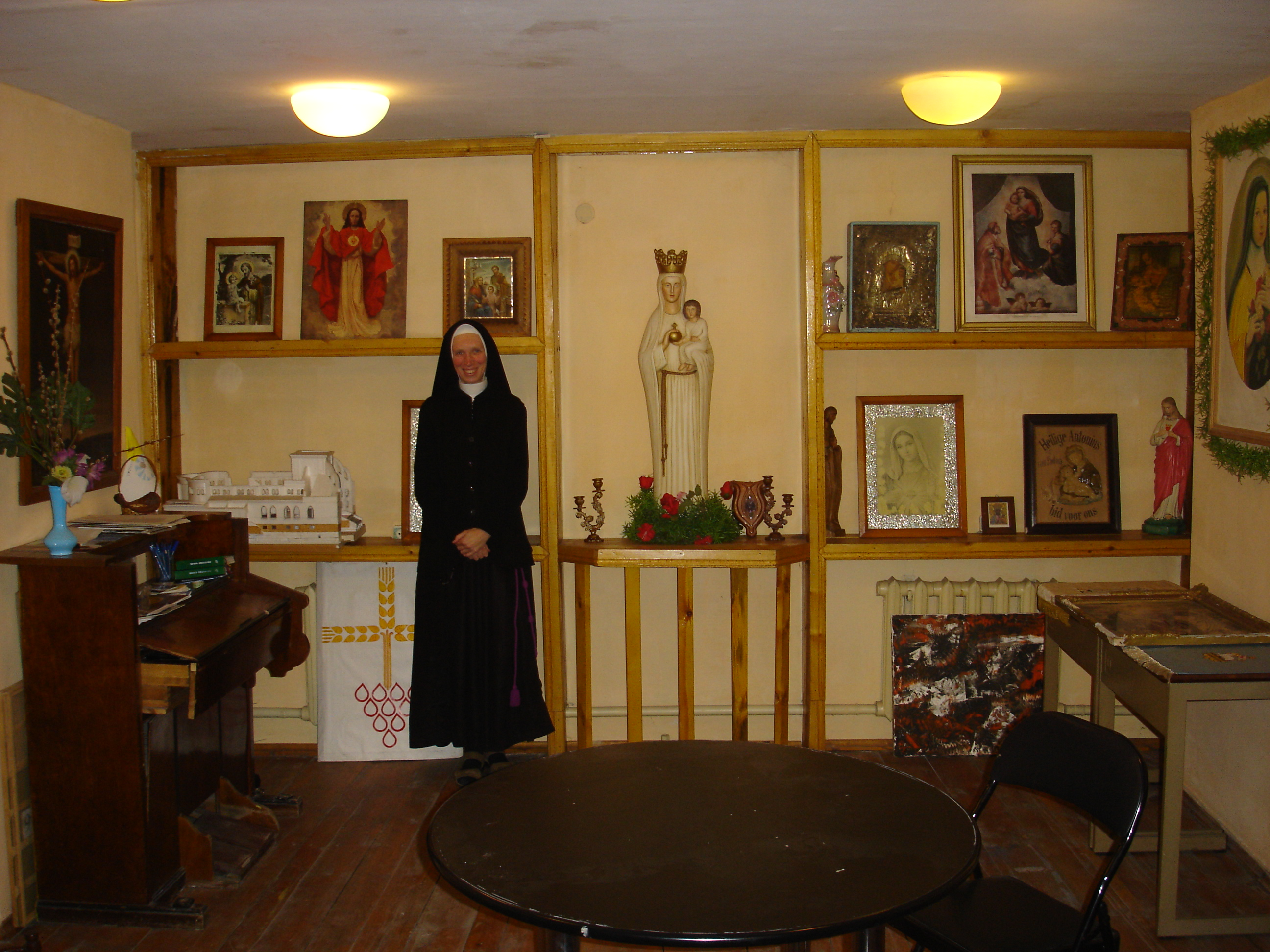 Roman-Catholic church of Saint Thérèse of the Child Jesus, Pavlodar, Kazakhstan. The church museum, dedicated to the history of Christian faith in Kazakhstan. One of the museum room's main view; sister Marina - museum guide and nun from this church.